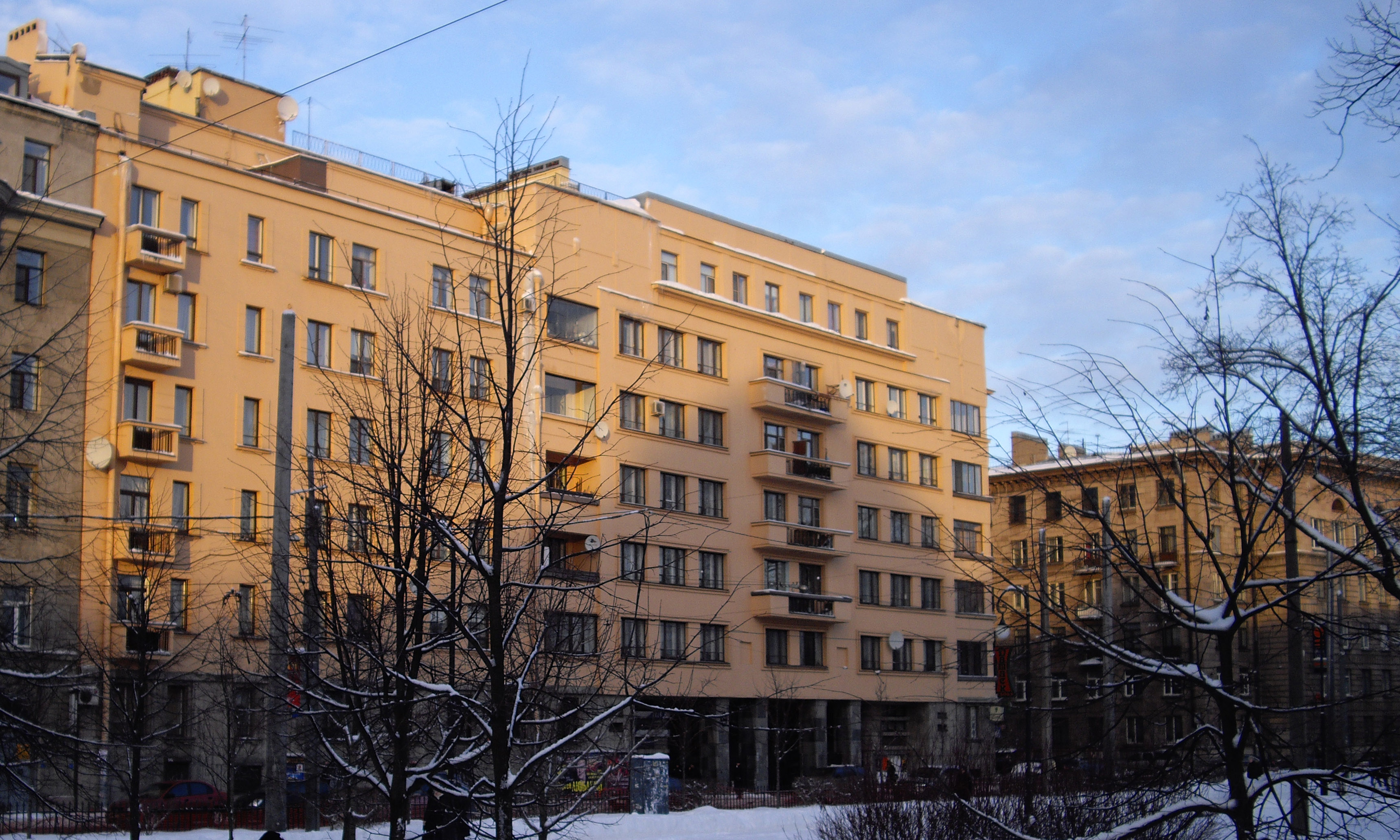 45, Kronverkskiy Prospekt, near the corner of Kronverkskaya Street (Saint-Petersburg, Russia). View from Alexandrovsky Park.